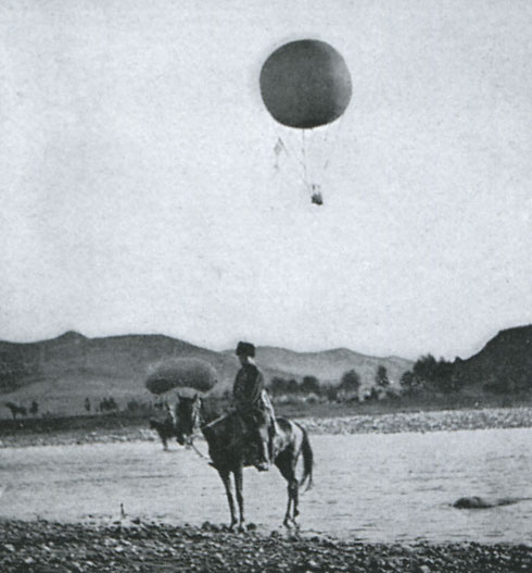 Russian Baloon in the Battle of Liaoyang.